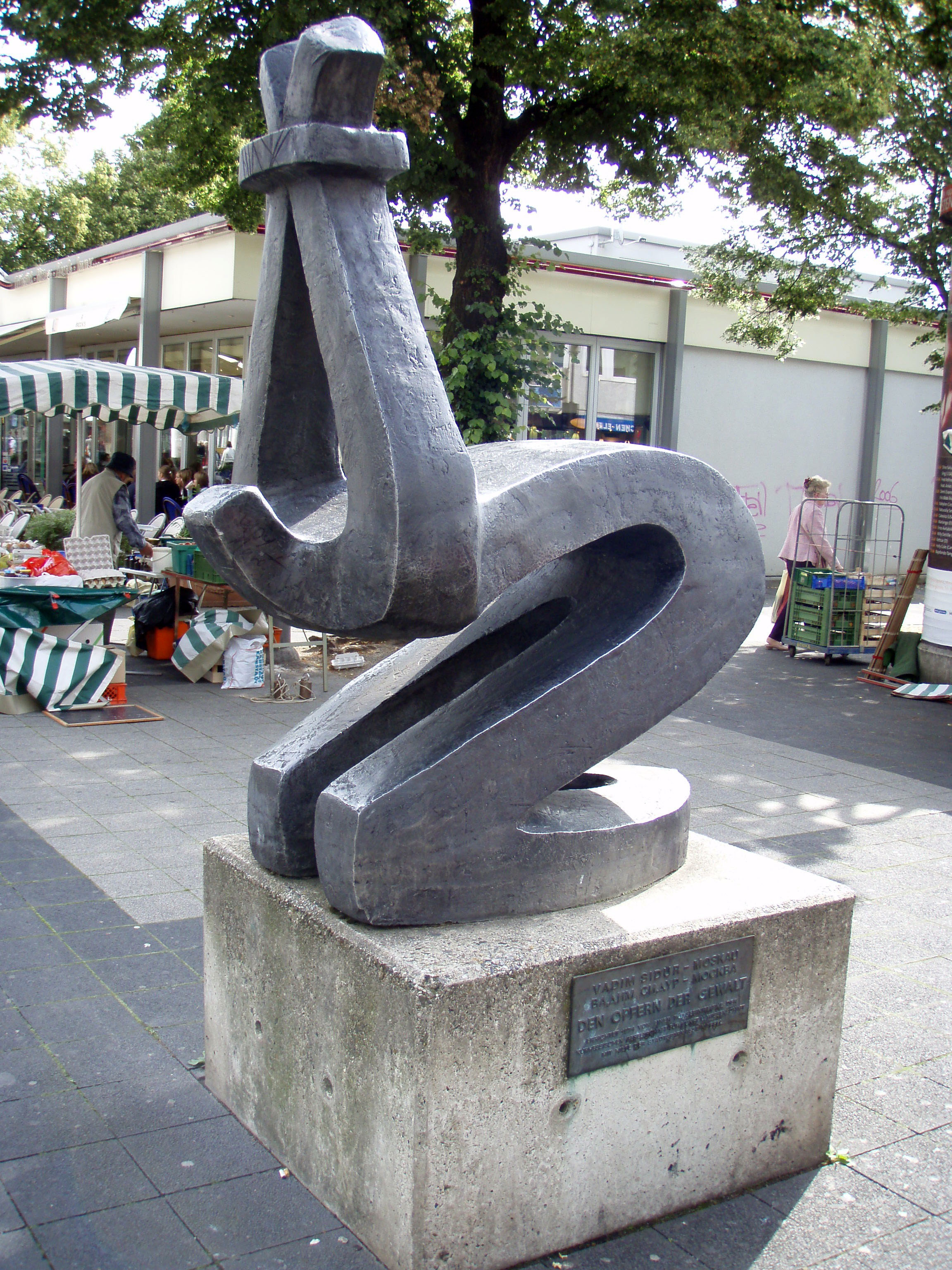 Sculpture "Den Opfern der Gewalt" by Vadim Sidur in Kassel/Germany